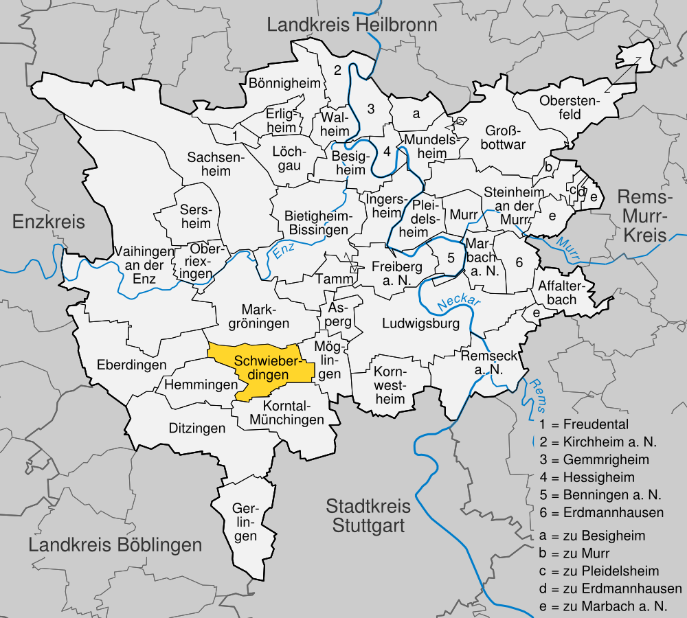 position of Schwieberdingen within distict of Ludwigsburg, Baden-Württemberg, Germany